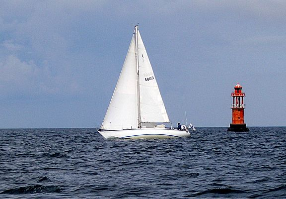 Sail boat at Skiftet, Archipelago Sea, Finland. The lighthouse in the background is named after Gustaf Dalén